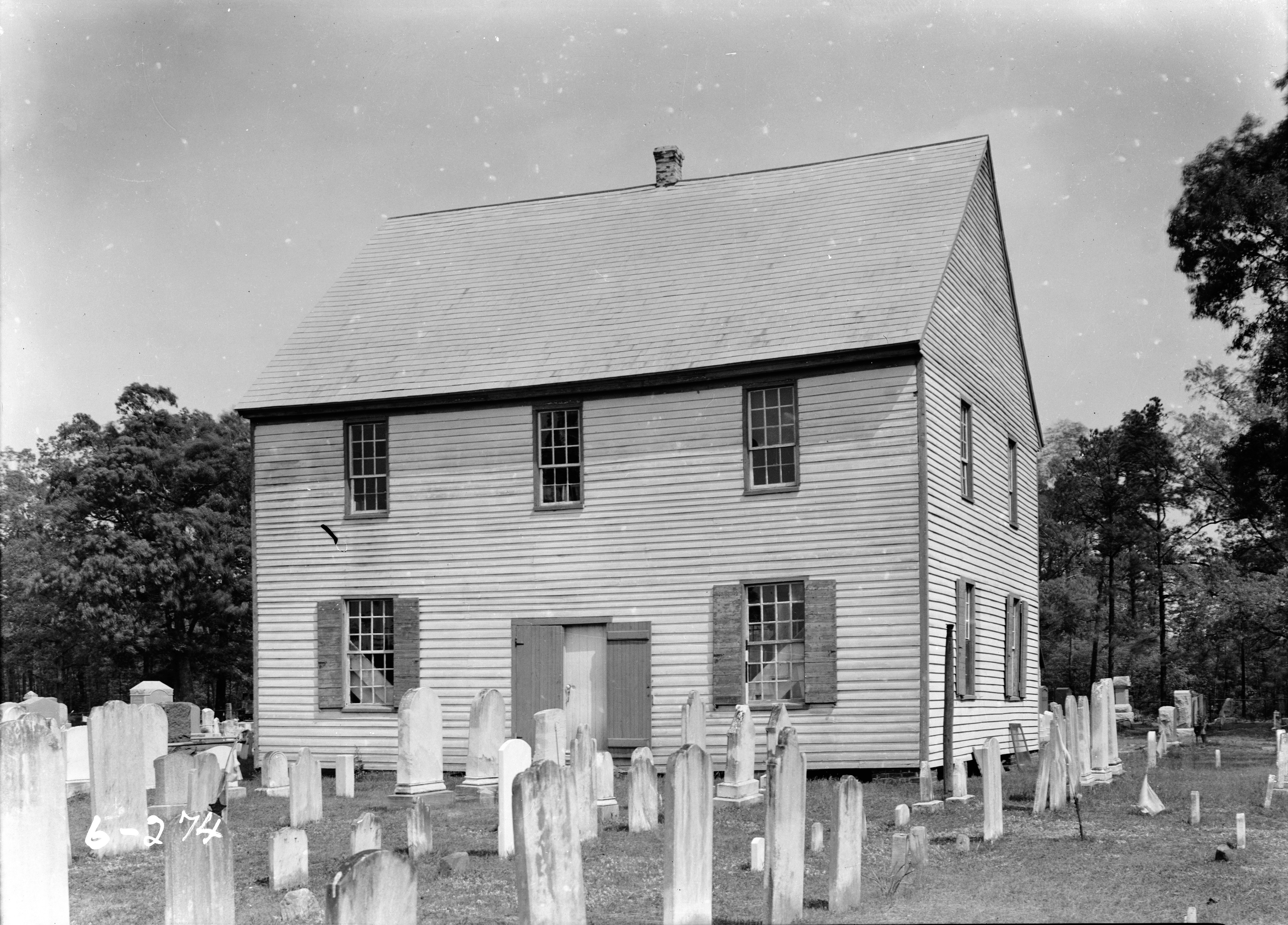 Head-of-the-River Methodist Episcopal Church, Etna Road, Corbin City, Atlantic County, NJ as photographed by Nathaniel Ewan, HABS photographer, 1936